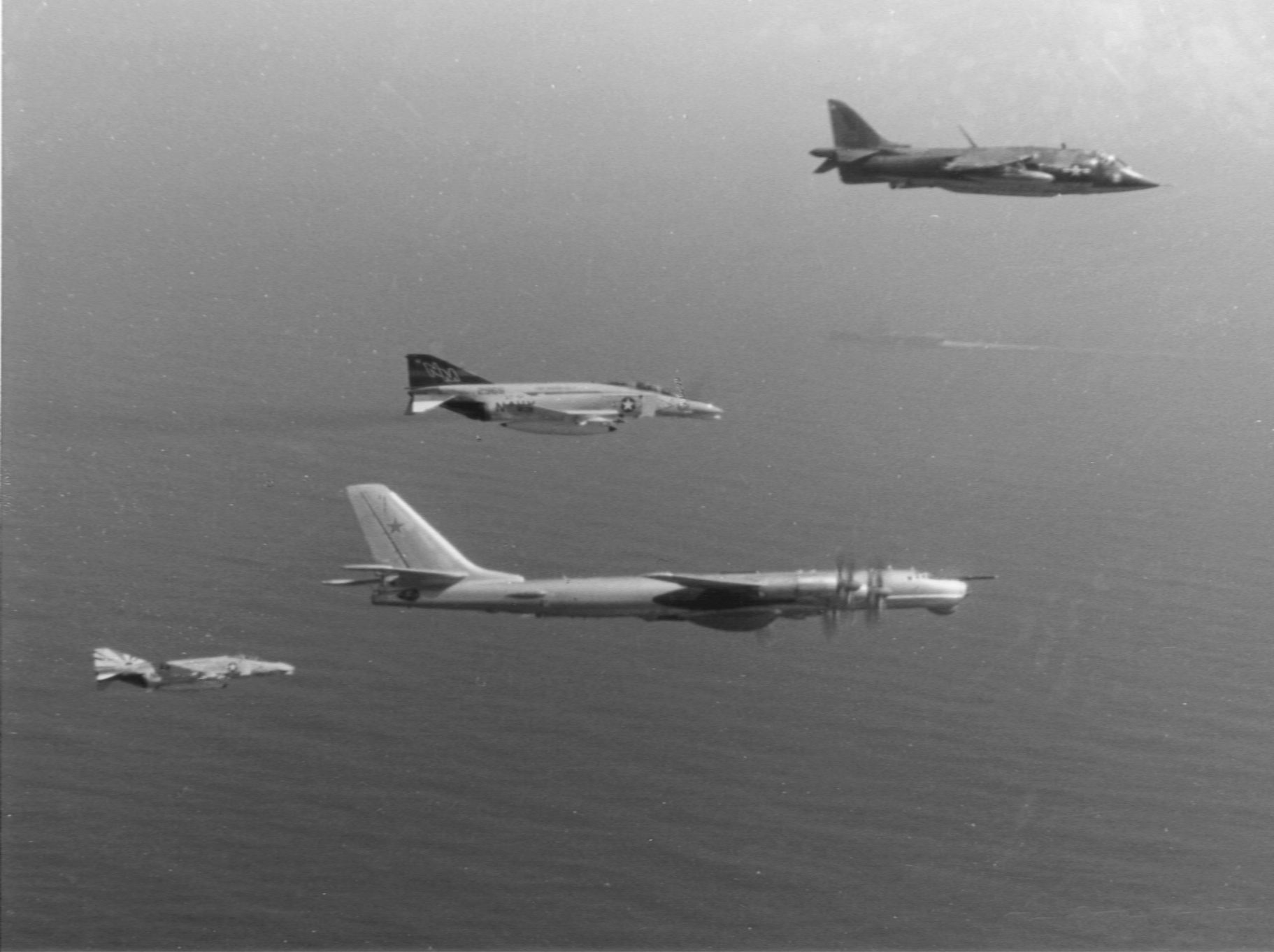 A U.S. Marine Corps AV-8A Harrier from Marine Attack Squadron 231 (VMA-231, pilot Major Randy Balara) "Ace of Spades" and two U.S. Navy McDonnell F-4N Phantom II fighters from Fighter Squadron 51 (VF-51) "Screaming Eagles" and VF-111 "Sundowners" intercept a Soviet Tupolev Tu-95 (NATO reporting Code "Bear"). The squadrons were assigned to Carrier Air Wing 19 (CVW-19) aboard the aircraft carrier USS Franklin D. Roosevelt (CV-42), barely visible in the haze below, for her final cruise to the Mediterranean Sea from 4 October 1976 to 21 April 1977. Franklin D. Roosevelt was decommissioned on 30 September 1977.